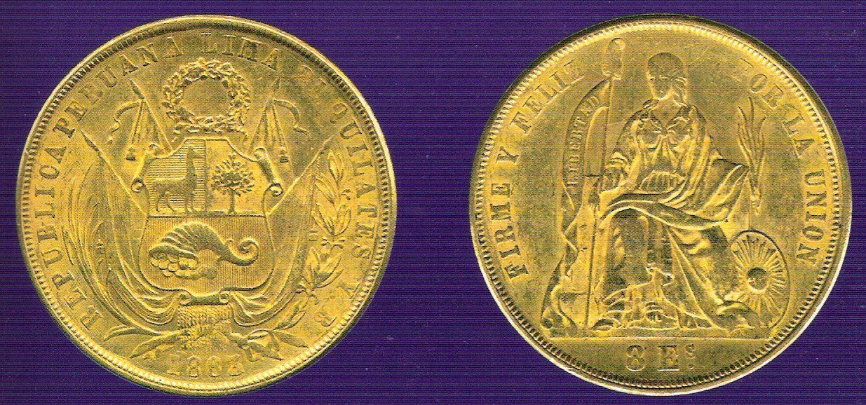 Golden coin of 8 escudos from Peru